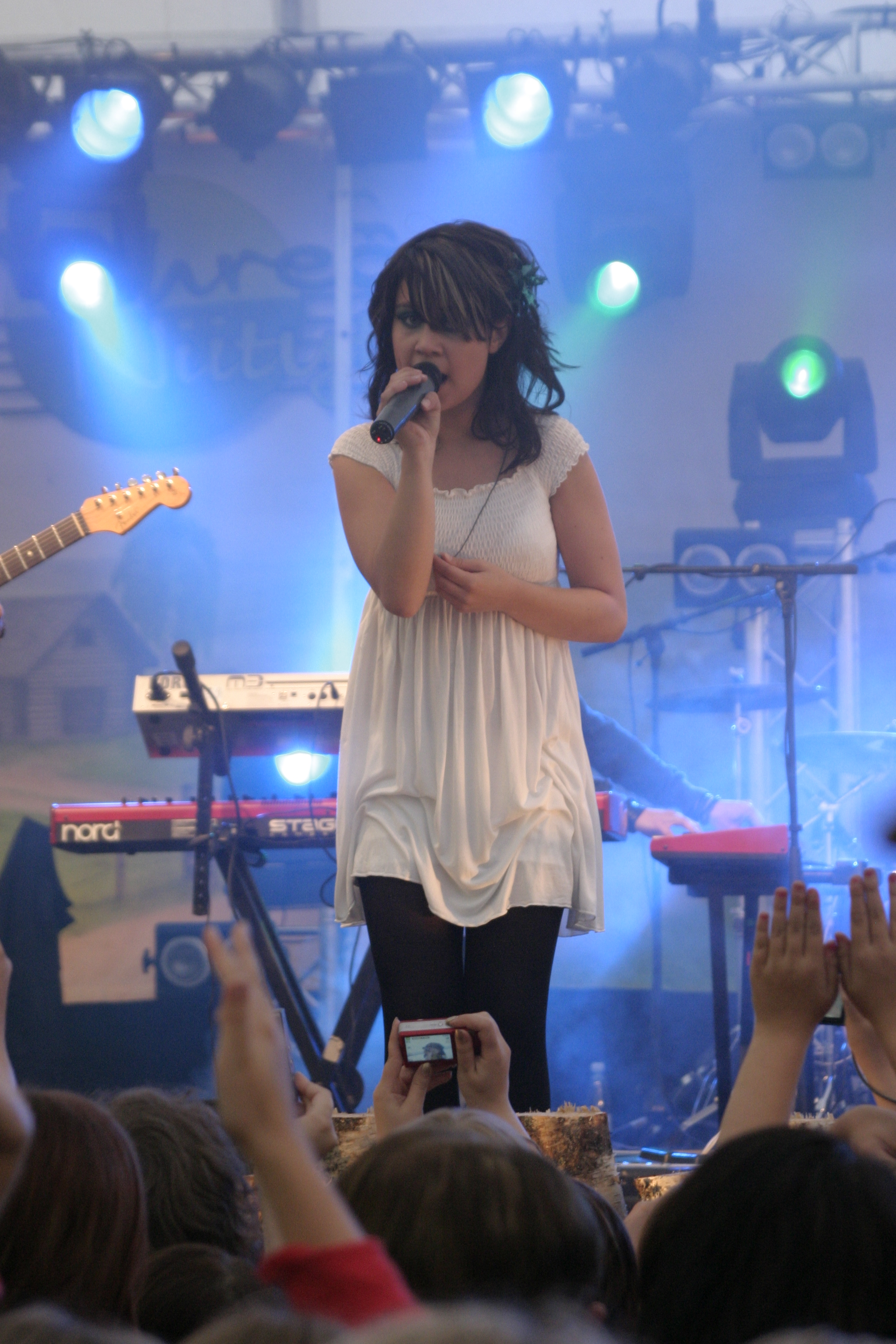 Anna Abreu in Kiuruvesi